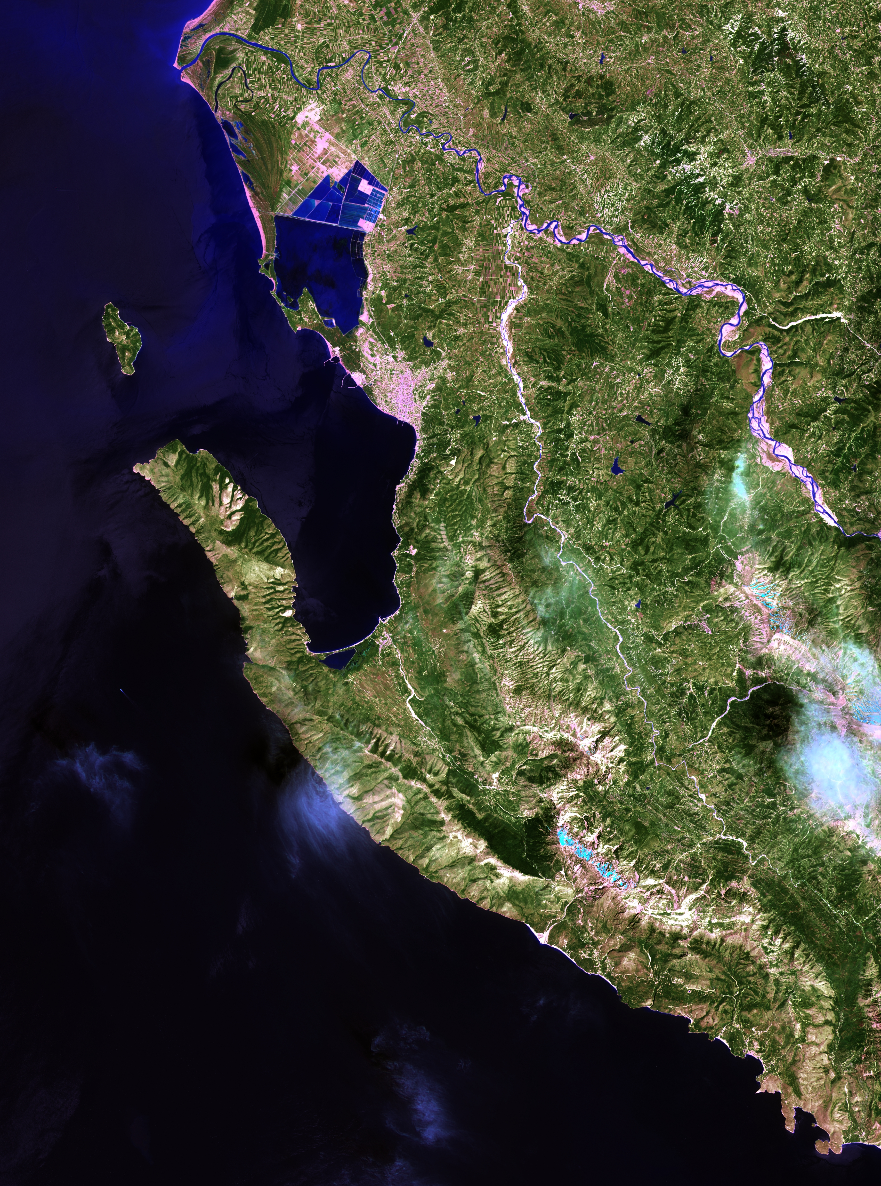 Albanian riviera, Bay of Vlore